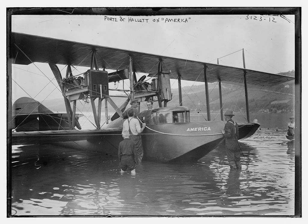 Aviators John Cyril Porte and George E.A. Hallett on the America flying boat, Hammondsport, New York.